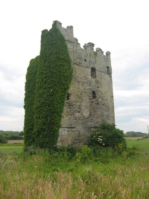 Portrane Castle, Co. Dublin, near to Portraine, Lidoville and Ballisk, Dublin, Ireland. Also known as Stella's Tower, after Jonathan Swift's 'Stella', Esther Johnson, who, it is said, stayed here.